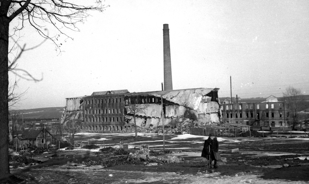 Frenkelis tannery in Šiauliai, destroyed in WWII, 1945.